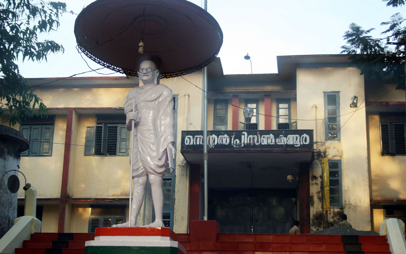 Kannur Central Jail